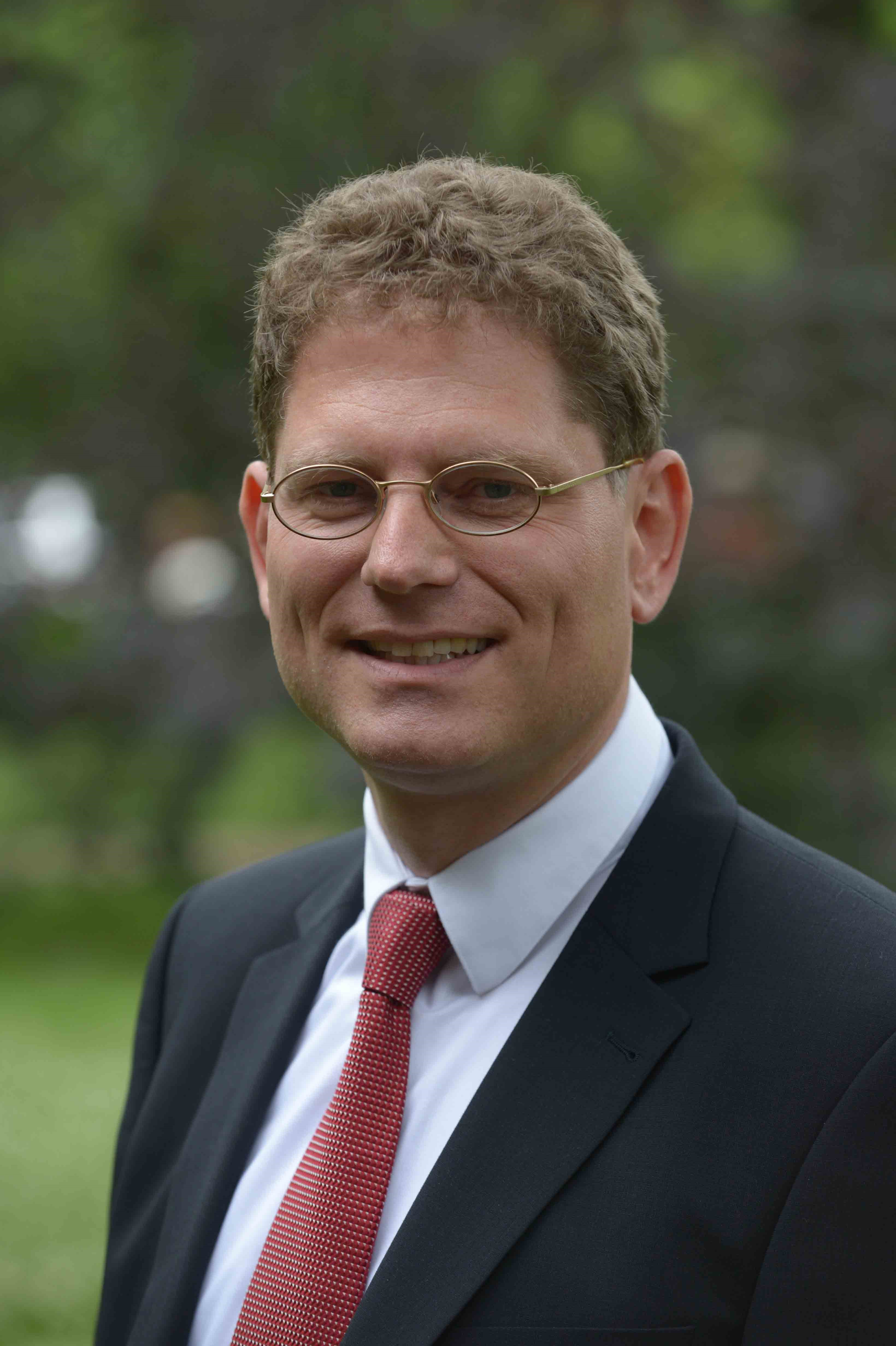 Markus